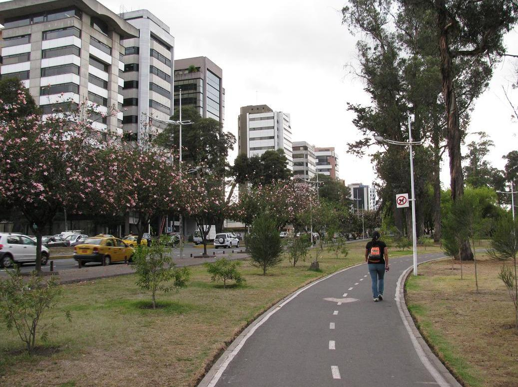 La Carolina Park, sidewalk